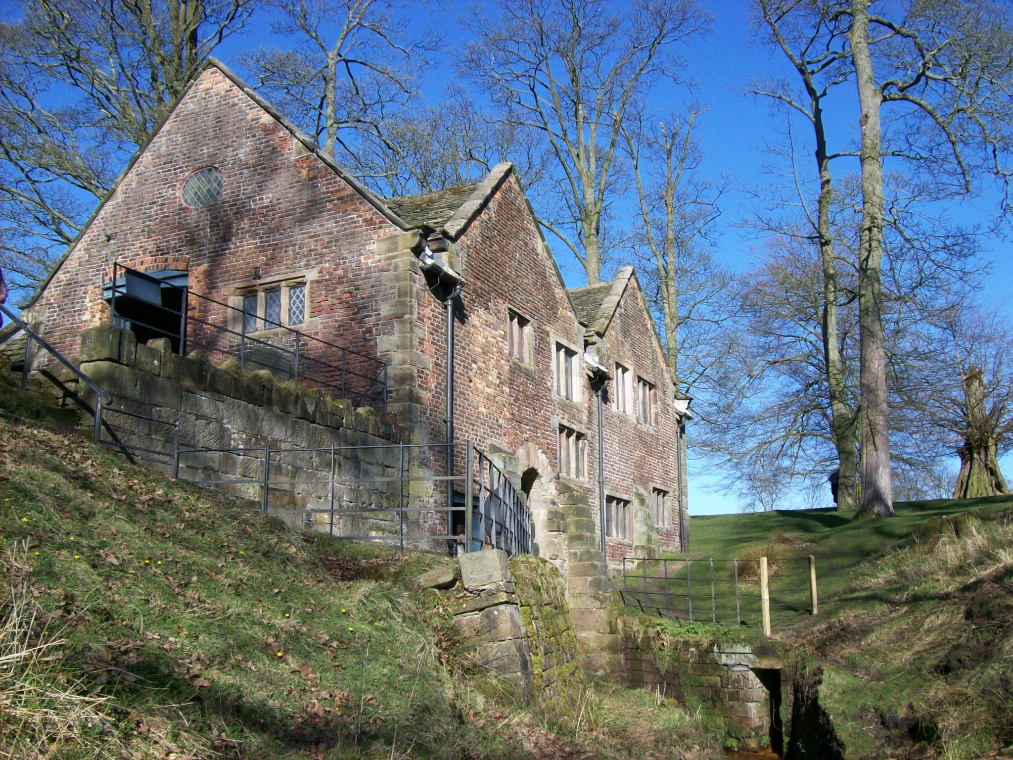 Saw mill at Dunham Massey Hall